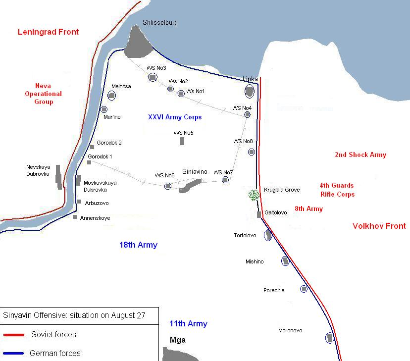 Frontline during the Sinyavin offensive on August 27 . The information of troops positions and advance based on Glantz (2004) and Glantz (2009).